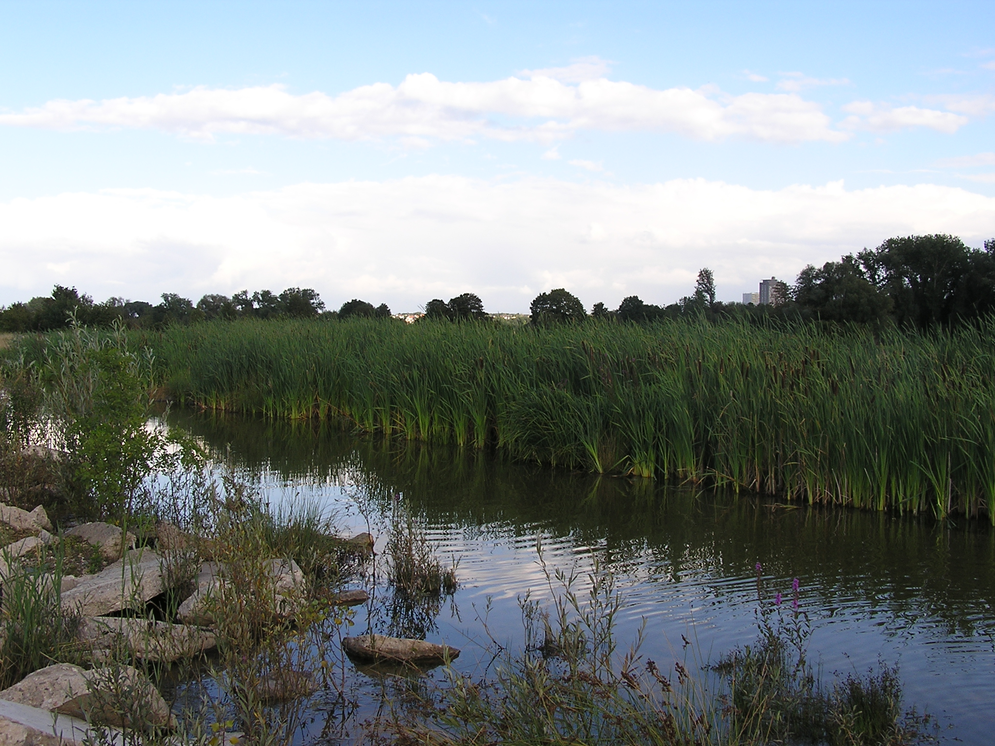 Wetland on a renatured part of the former Bonames airport